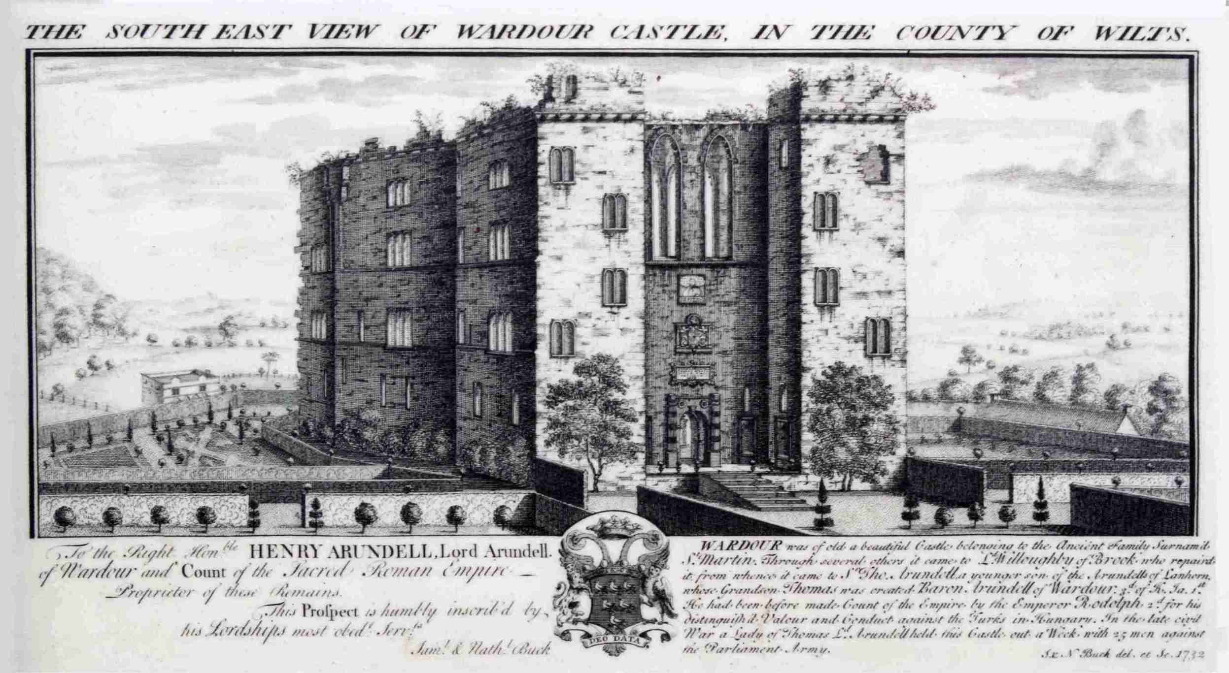 1732 engraving by Samuel and Nathaniel Buck of Old Wardour Castle, UK